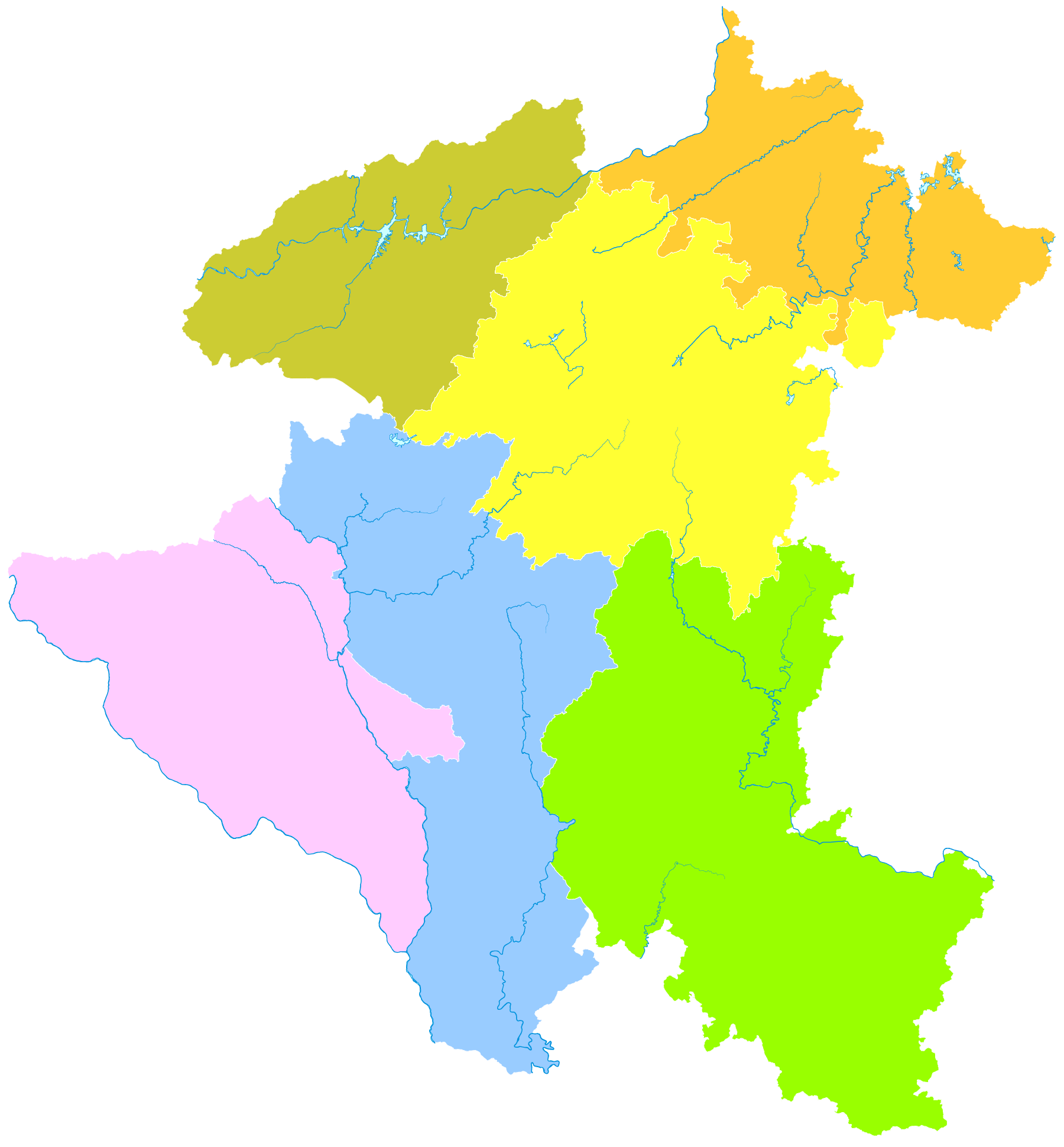 administrative division of Anshun City, Guizhou, China